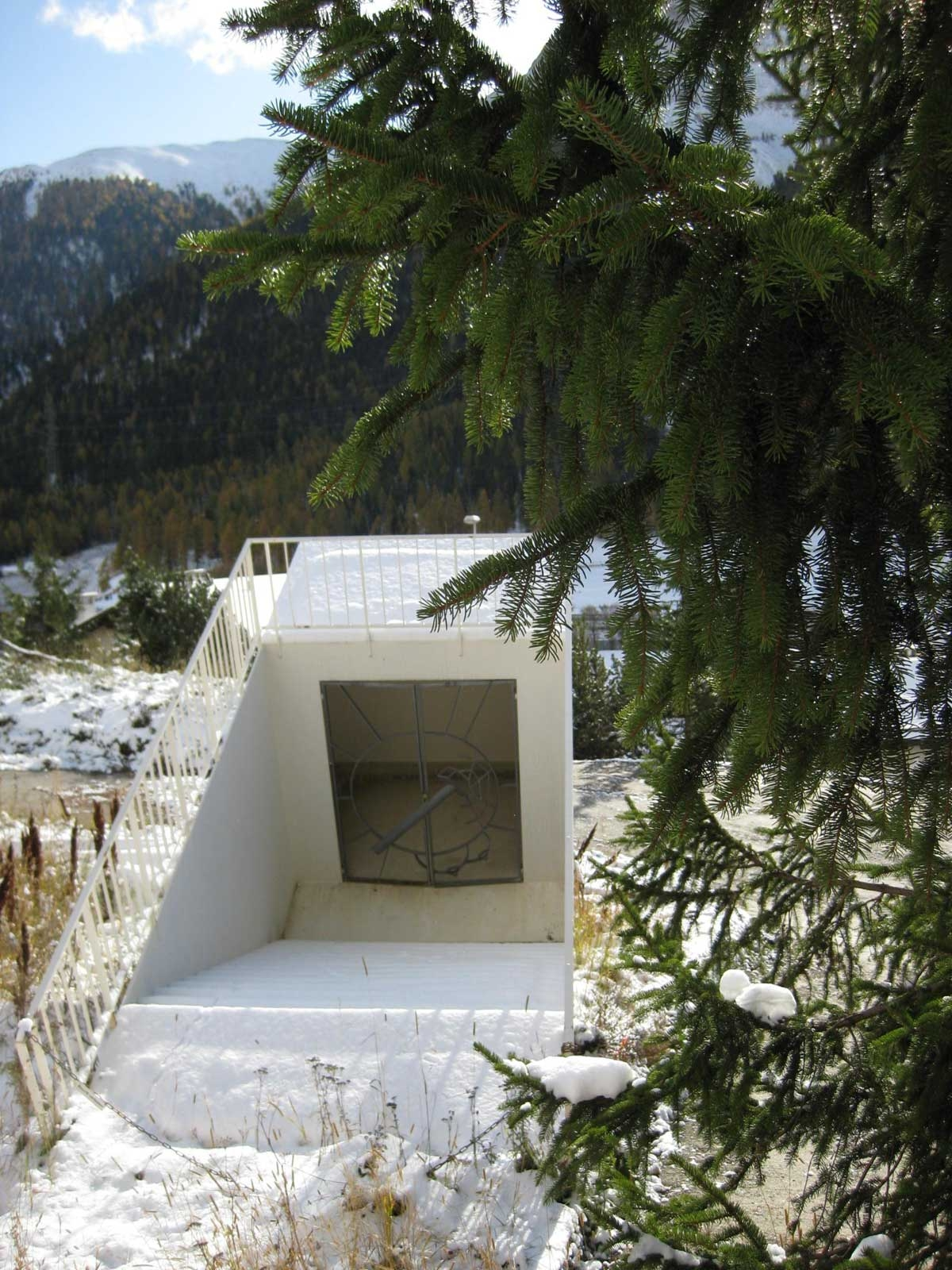 Sculpture/installation Transportabler U-Bahn-Eingang (2007) by Martin Kippenberger in Madulain (Engadin)/Switzerland